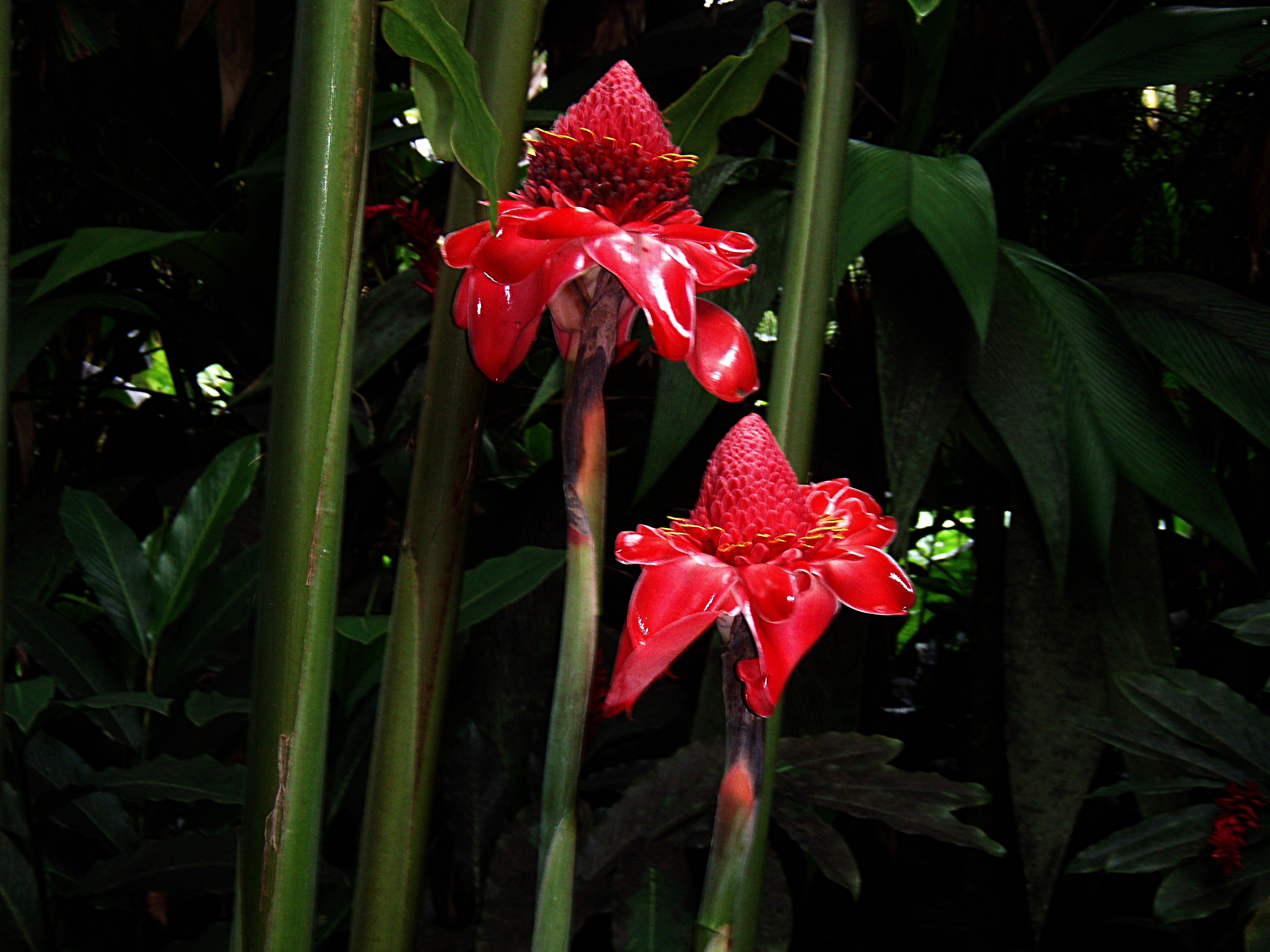 Red Torch, Etlingera elatior